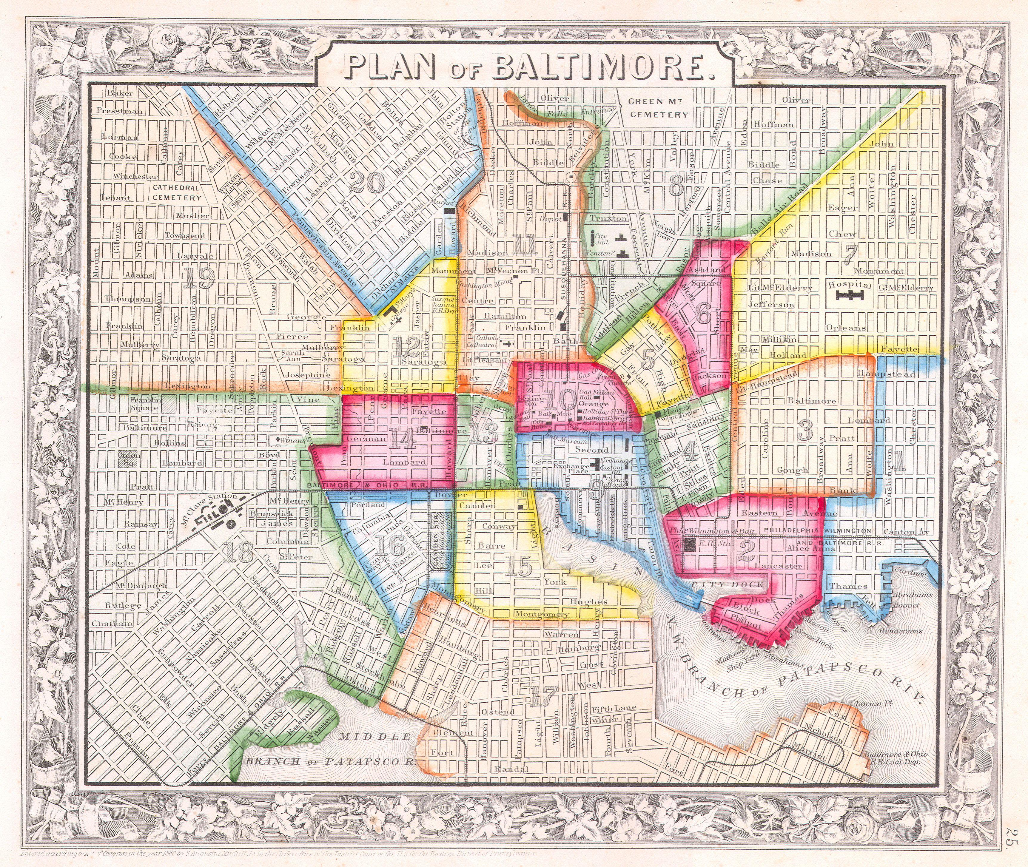 This scarce hand colored map is a lithographic engraving of Baltimore, Maryland, dating to 1860 by the legendary American Mapmaker S.A. Mitchell, the younger. This is perhaps the most attractive of all the Mitchell Baltimore maps, as only this and the 1861 edition offer beautiful vivid hand coloring within each of the city districts. Later editions tend to use only reds. This map was originally part of the 1860 edition of Mitchell’s New General Atlas. Dated and copyrighted 1860.